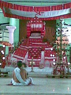 borduwa thaan